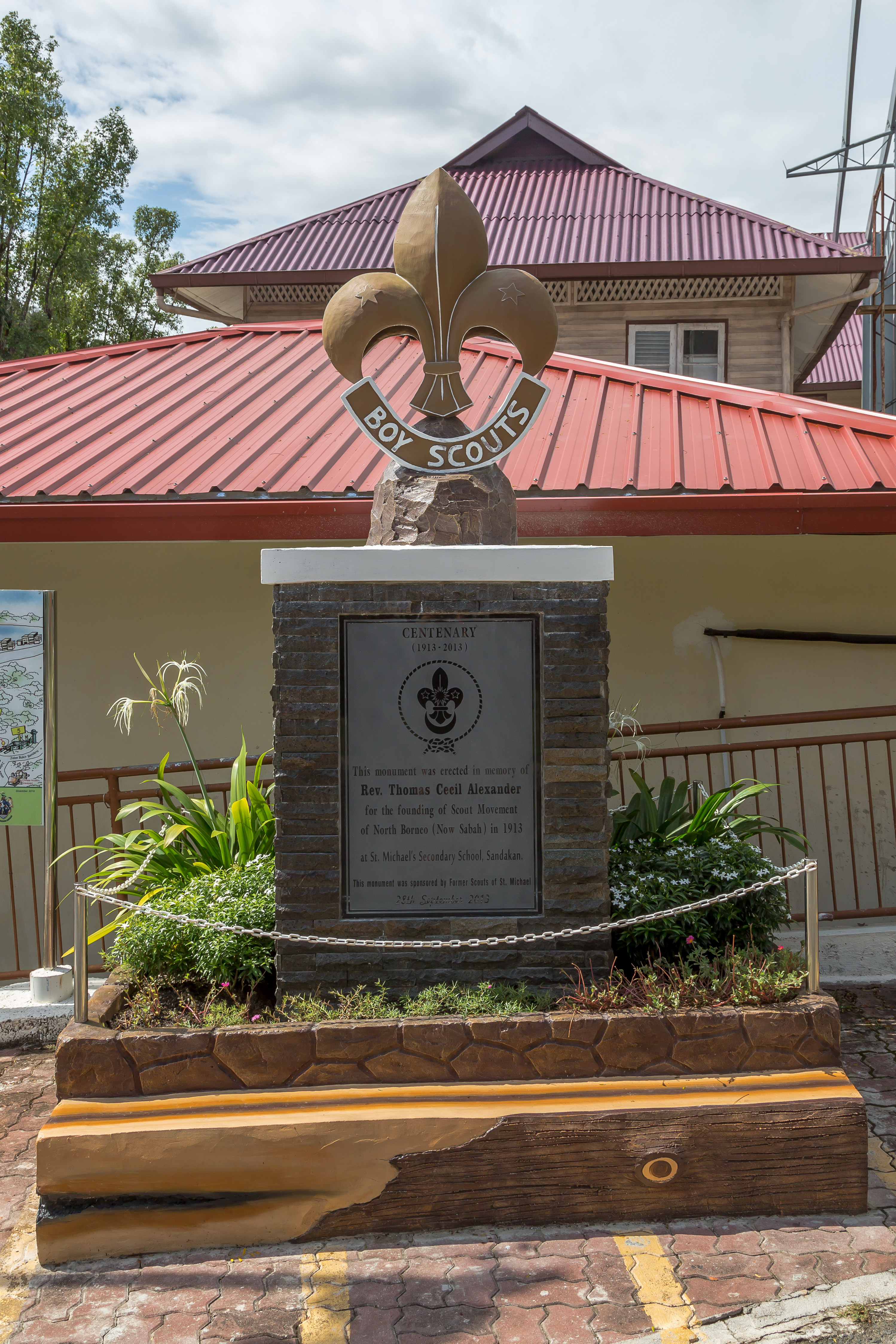 Sandakan, Sabah: North Borneo Scout Movement Monument. The centenary monument of Scout Movement if North Borneo was erected in memory of Rev. Thomas Cecil Alexander at St. Michael's Secondary School Sandakan and unveiled September 28, 2013